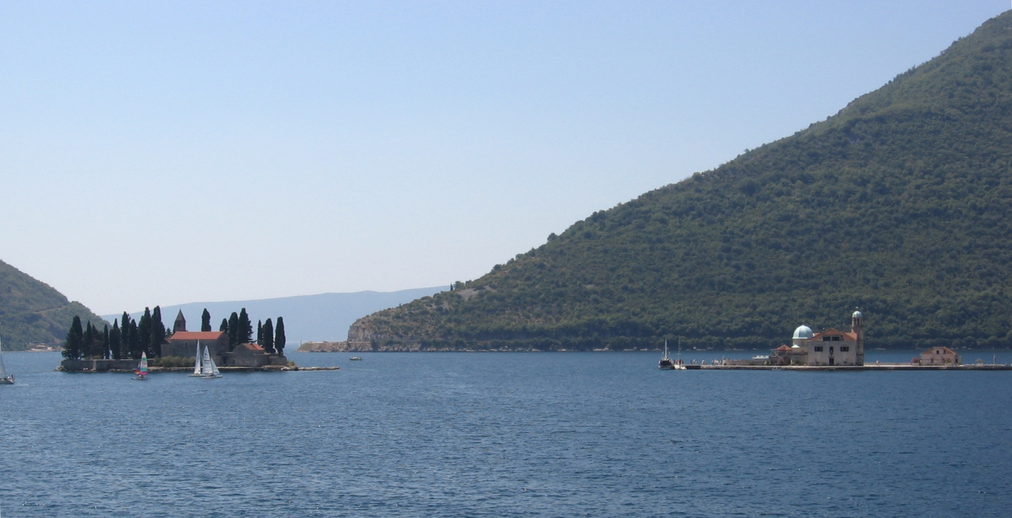 two islands in Gulf of Kotor